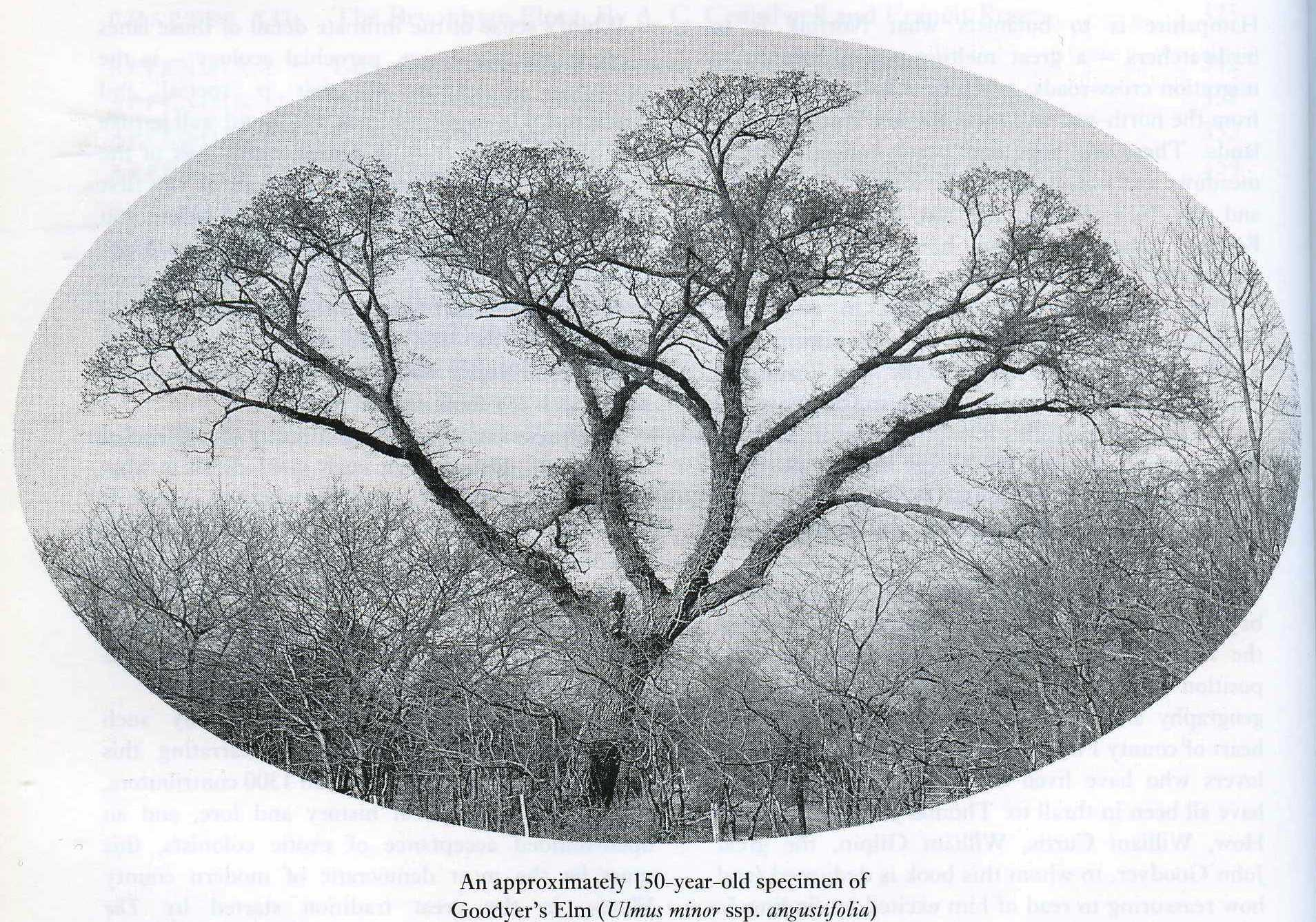 The Goodyer Elm at Rockford Green, Hampshire